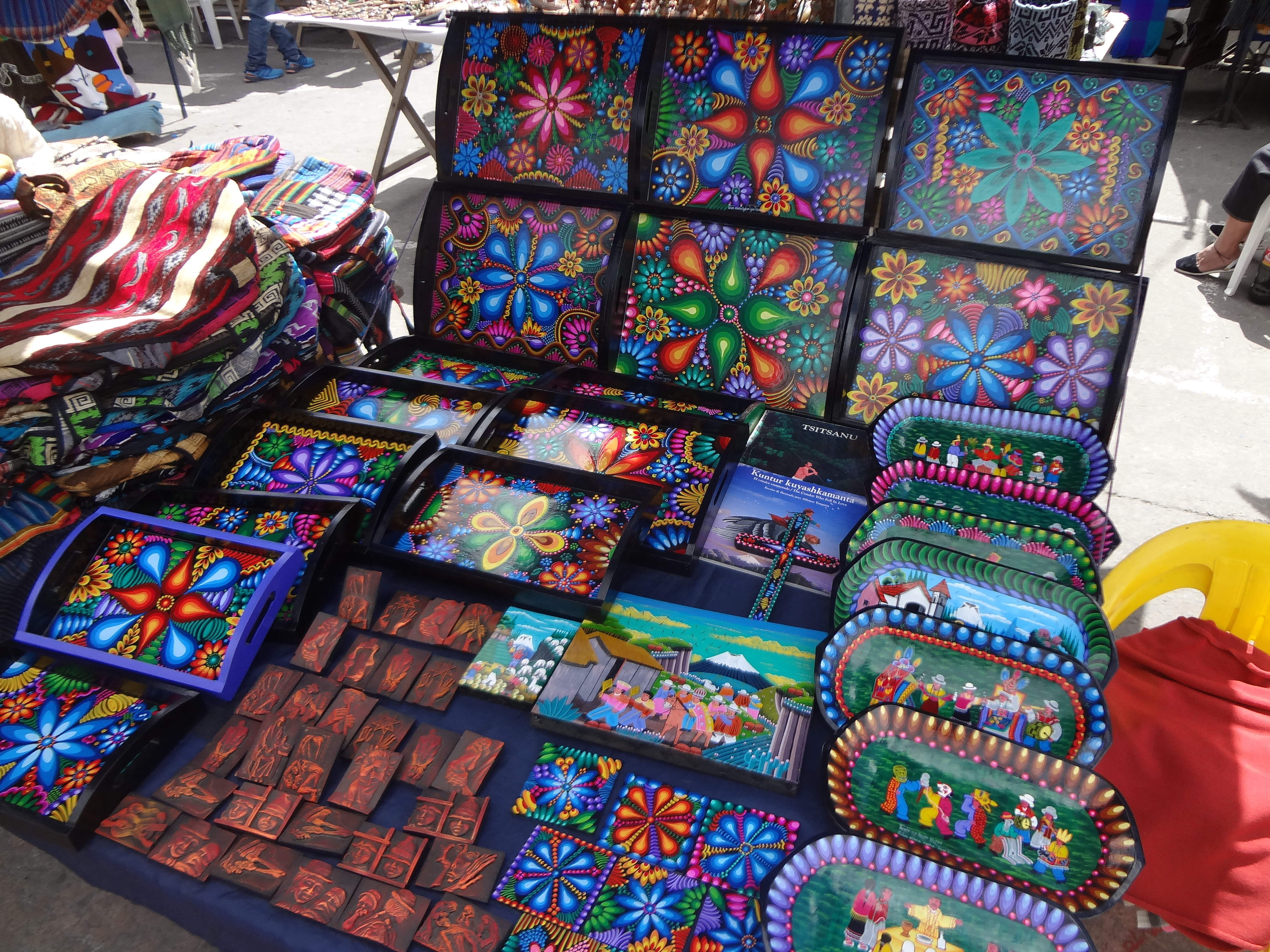 Hand painted by local artisans, Otavalo Market in the Andes Mountains